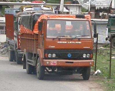 Ashok Leyland Ecomet truck